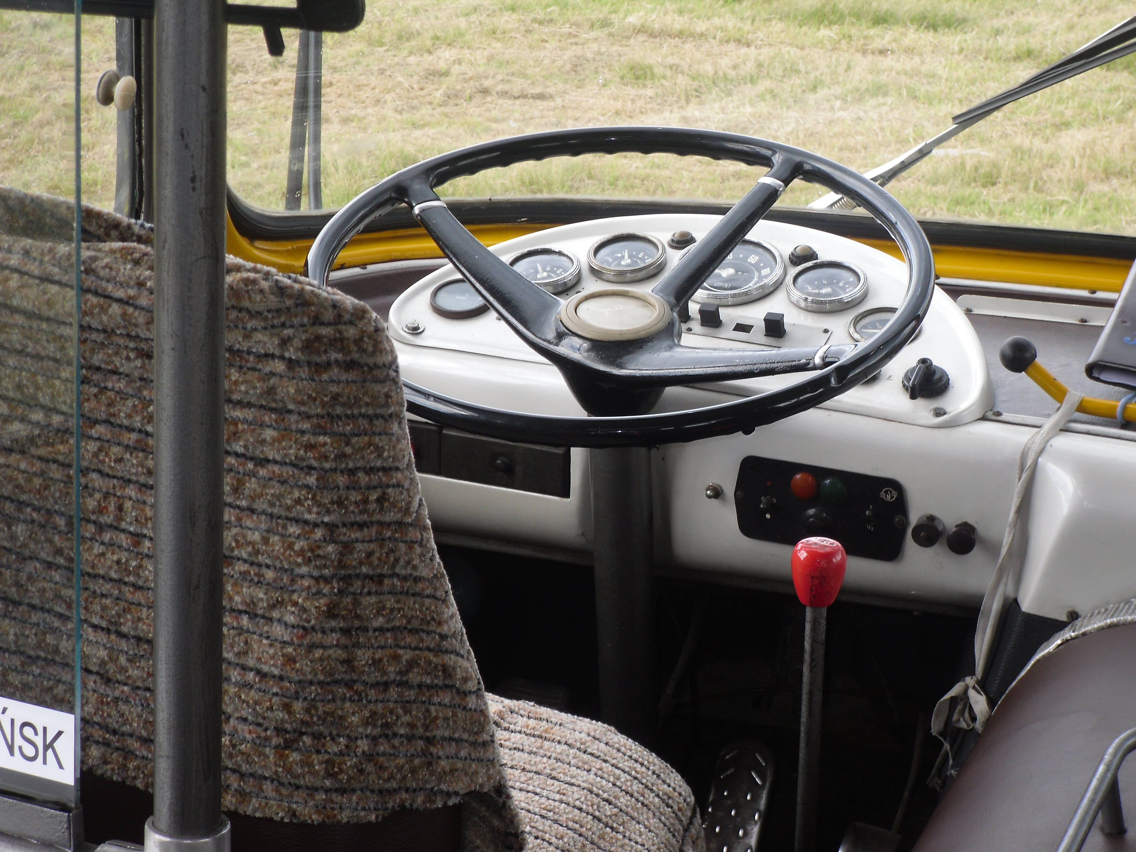 Jelcz 043 bus (#23461) cockpit in Gdańsk, Poland. Built 1994, ZKM Gdańsk operator.